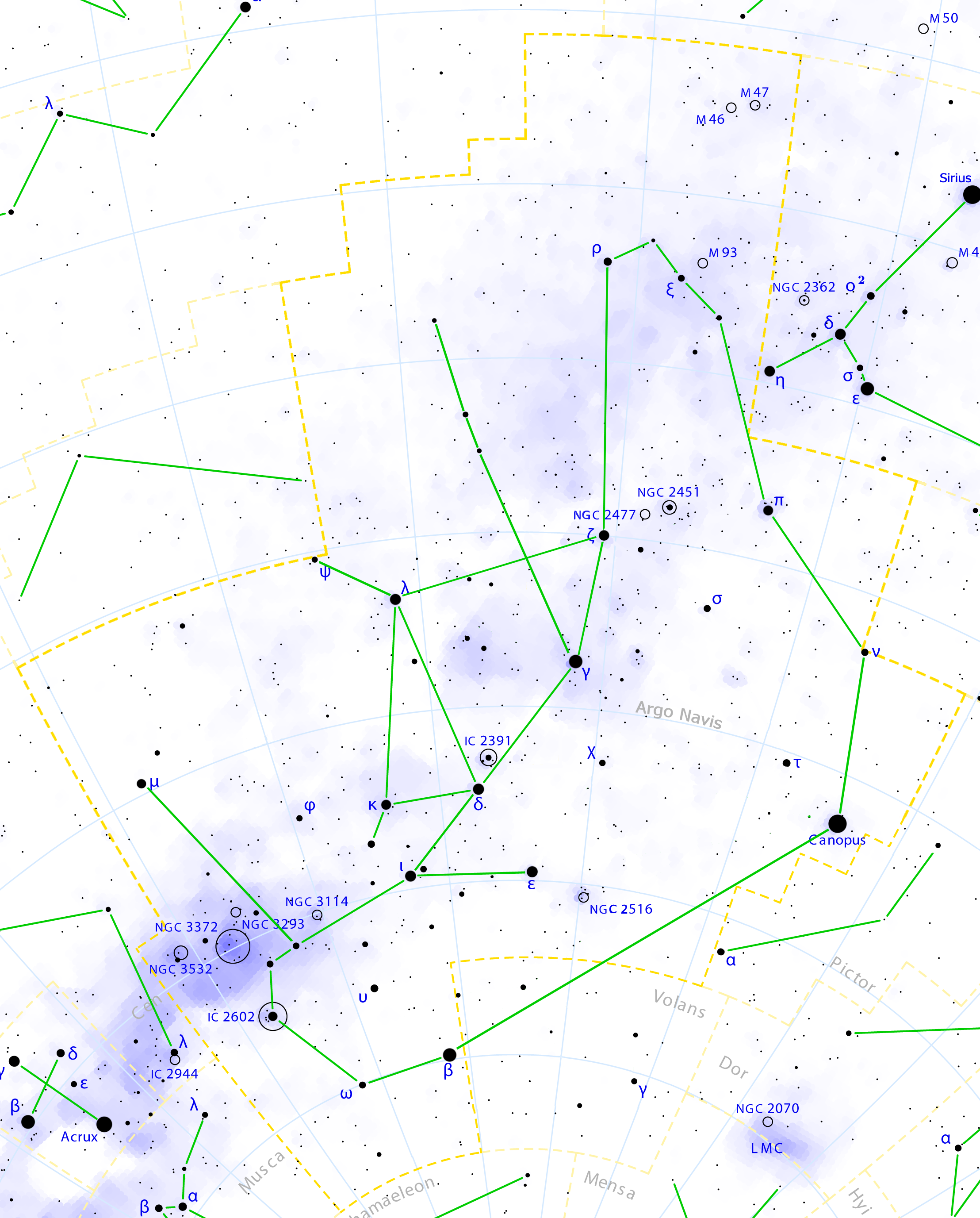 This is a celestial map of the ancient constellation Argo Navis, the Argo's Ship, as seen if Lacaille didn't divide it into Puppis, Vela, Carina and Pyxis. LMC is the Large Magellanic Cloud. It was created by Torsten Bronger using the program PP3 on 2000/07/07. At PP3's homepage, you also get the input scripts necessary for re-compiling the map. The yellow dashed lines are constellation boundaries, the red dashed line is the ecliptic, and the shades of blue show Milky Way areas of different brightness. The map contains all Messier objects, except for colliding ones. The underlying database contains all stars brighter than 6.5. All coordinates refer to equinox 2000.0. The map is calculated with the equidistant azimuthal projection (the zenith being in the center of the image). The north pole is to the top. The (horizontal) lines of equal declination are drawn for 0°, ±10°, ±20° etc. The lines of equal rectascension are drawn for all 24 hours. Towards the rim there is a very slight magnification (and distortion).